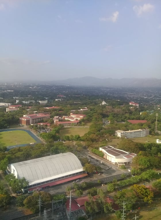 Ateneo de Manila skyline